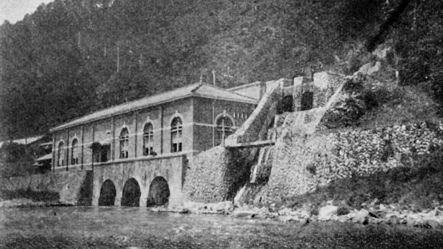 Kameyama Power Station.